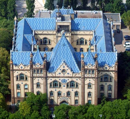 Budapest, district XIV, Hungary, aerial photography Geological institute